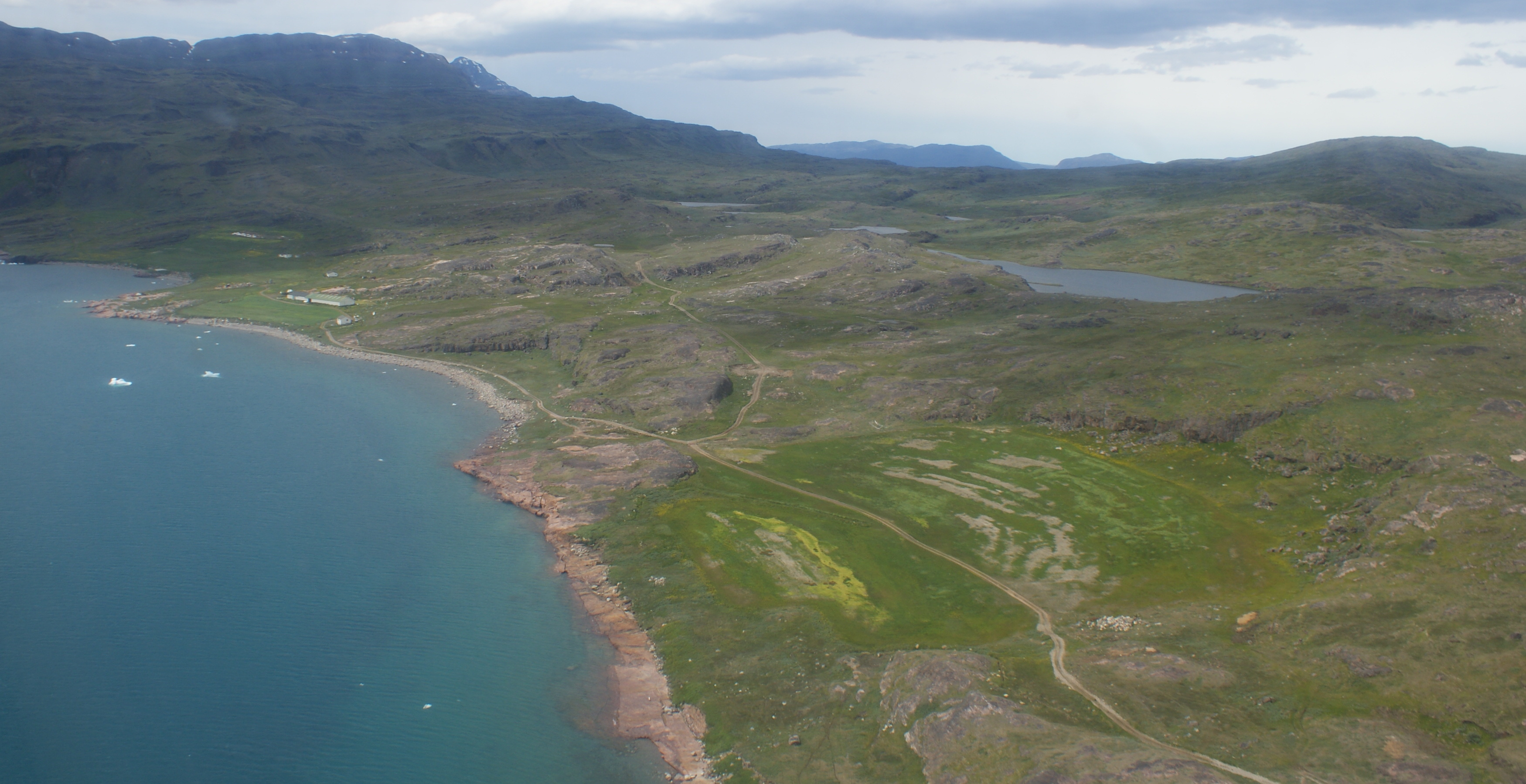 Qassiarsuk farms on the shores of Tunulliarfik Fjord, Greenland. Photographed from Air Greenland Sikorsky S-61N helicopter during the Narsaq-Narsarsuaq flight.